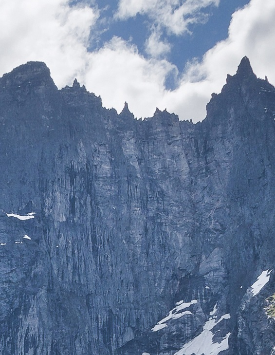 A view to Romsdalen from Vadstranda by the Rauma river in 2013 June. The mountains above belong to Trolltindene group. Among them is Trollveggen, one of the tallest pure vertical mountain faces in the world. Cropped to show Bruraskaret.